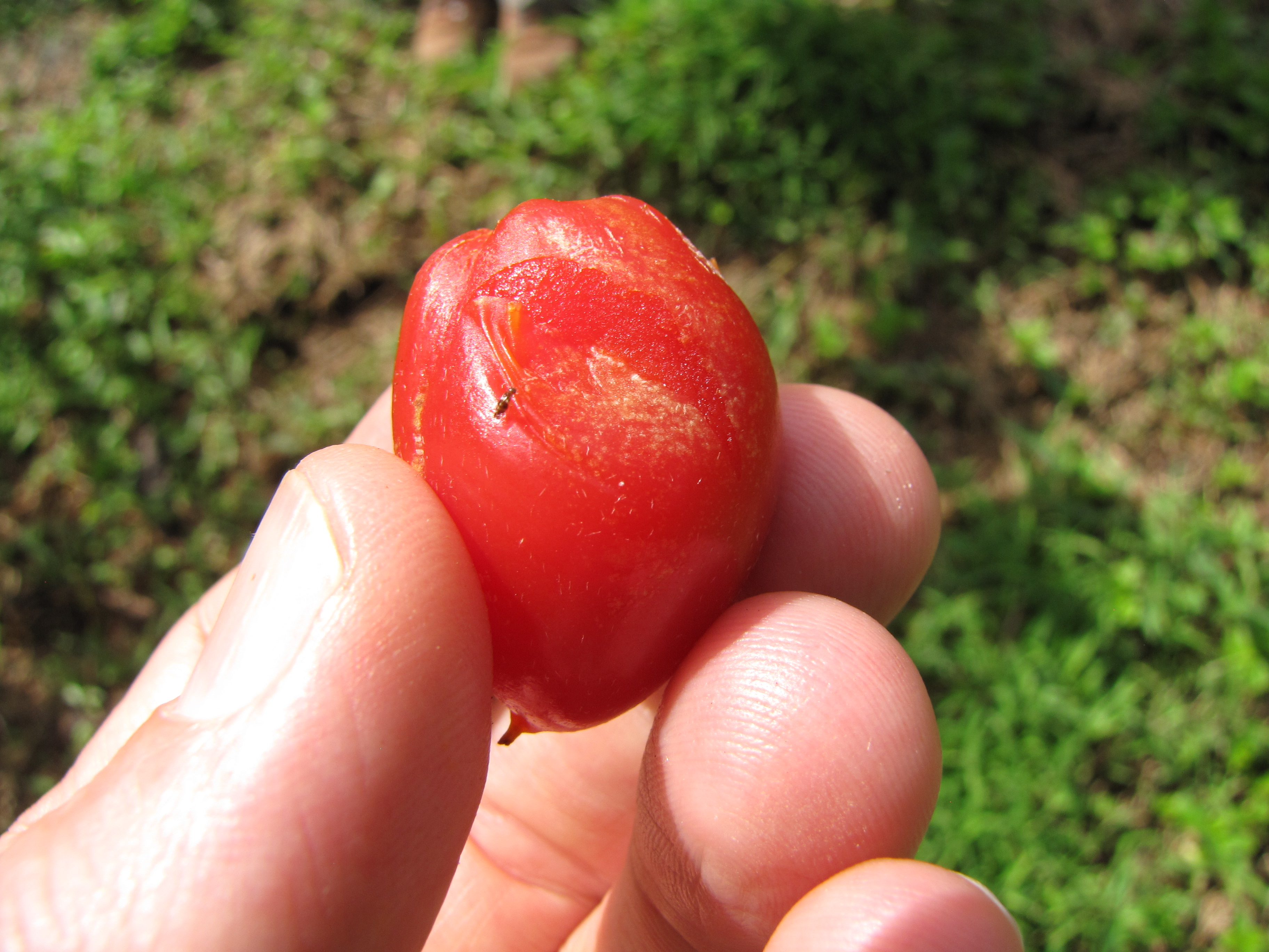 Bunchosia argentea (Peanut butter fruit) Fruit at Pali o Waipio, Maui, Hawaii. November 08, 2012 #121108-0760 Image Use Policy